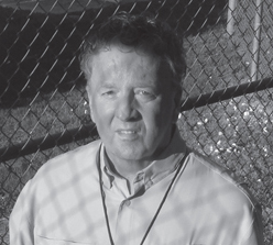 Cropped version of the book cover for the book "Dead Coach Walking" by Tom Penders and Steve Richardson, showing Tom Penders.